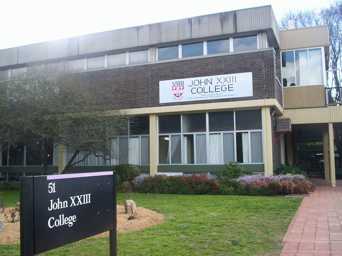 John XXIII College at Australian National University (ANU), Canberra. Sign on building reads "John XXII College, affiliated with the Australian National University", the other "51, John XXIII, College". I took the photo